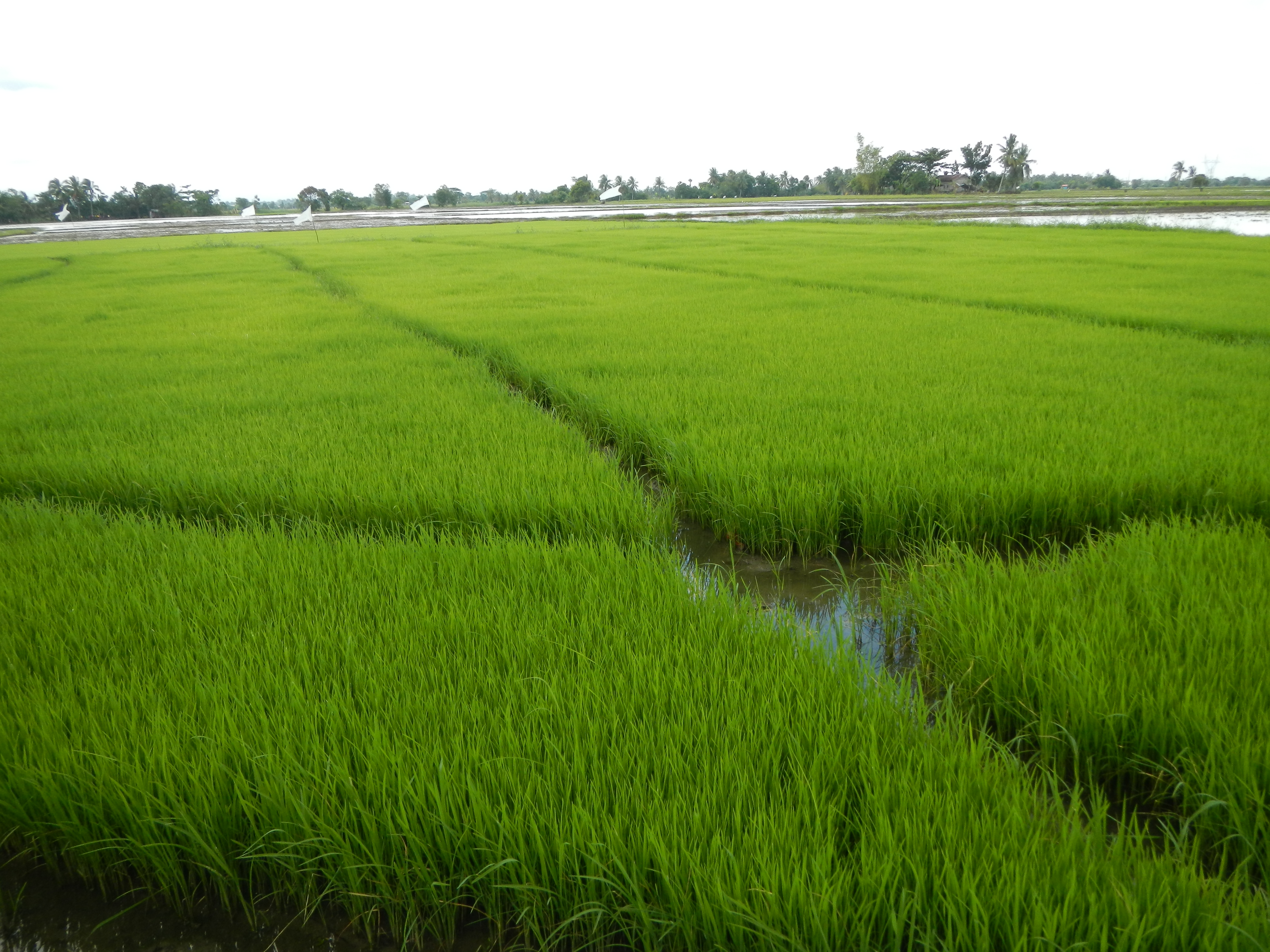 Balagtas, Bulacan Barangay Burol 2nd, Balagtas, Bulacan - (from Paddy fields in Bulacan, landscapes, to Balagtas Welcome road sign beside NLEx Balagtas Interchange Bridge, to Centro, Proper, Barangay Hall beside the Elementary School along the Balagtas-Pandi Provincial Road).